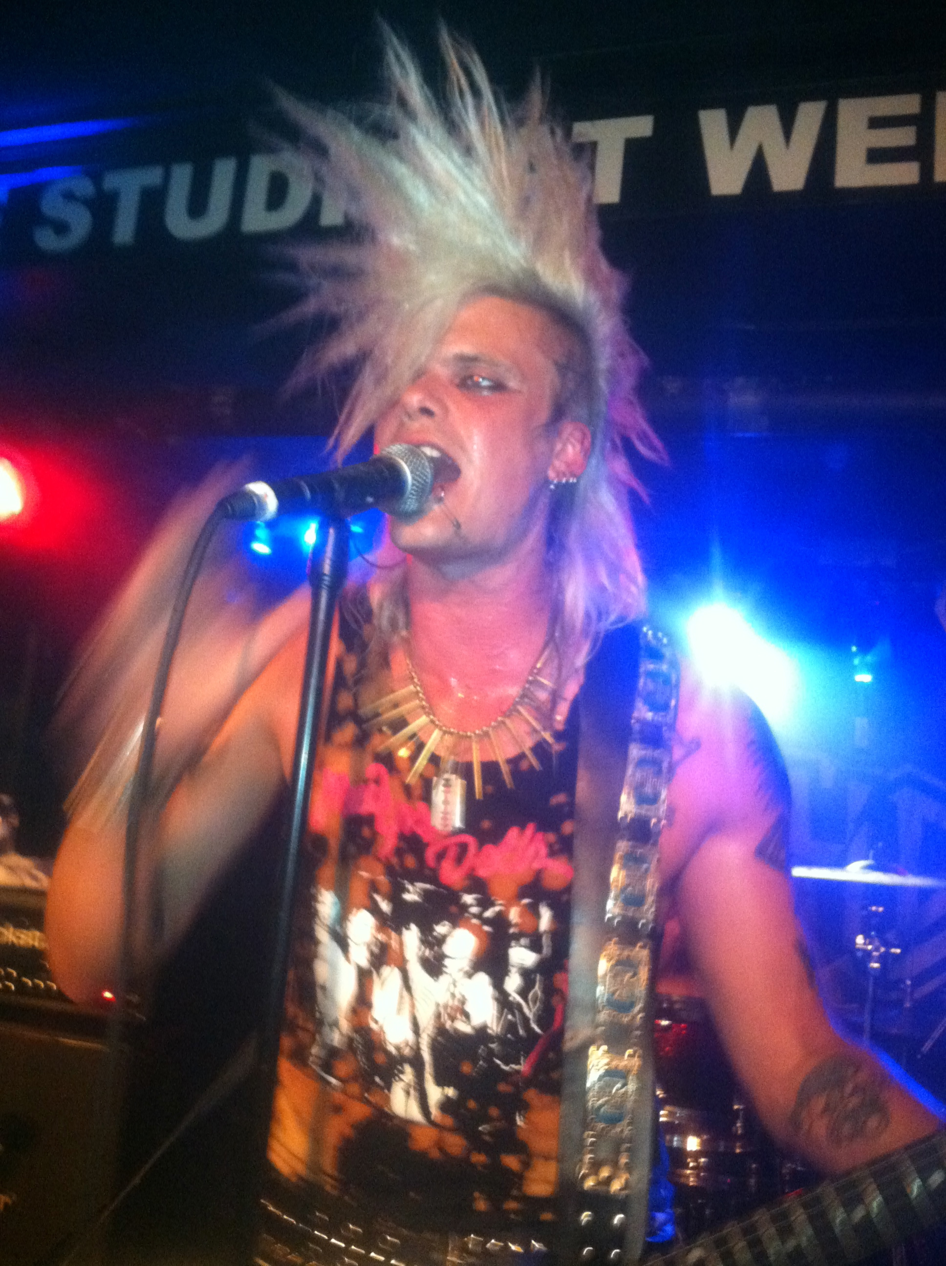 Simon Cruz on stage at Crashdiet's first concert in New York City at Webster Hall, August 24th 2012.